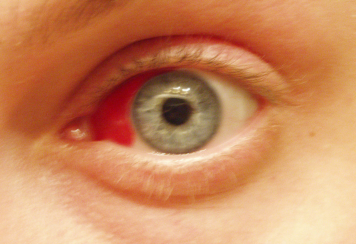 Subconjunctival hemorrhage causing red coloration as result of ruptured blood vessel in the eye.